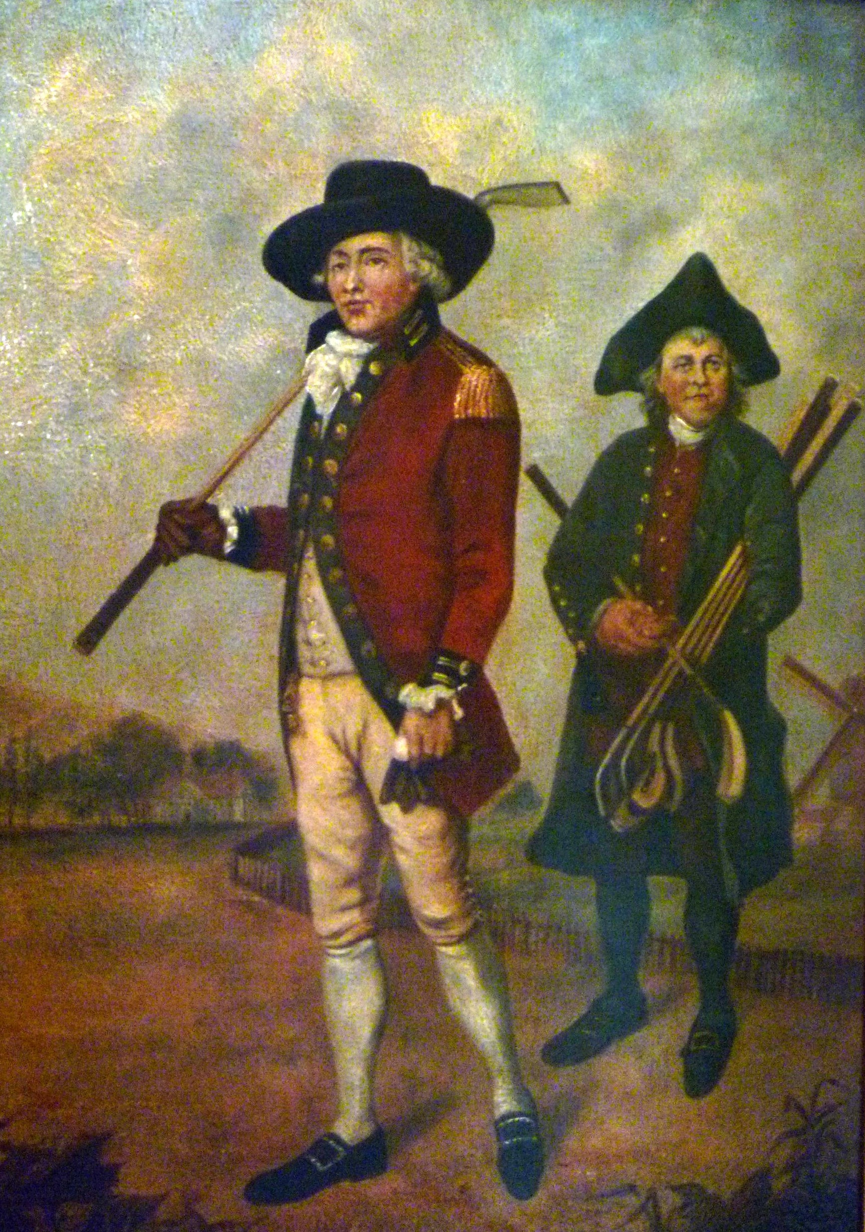 The Blackheath Golfer